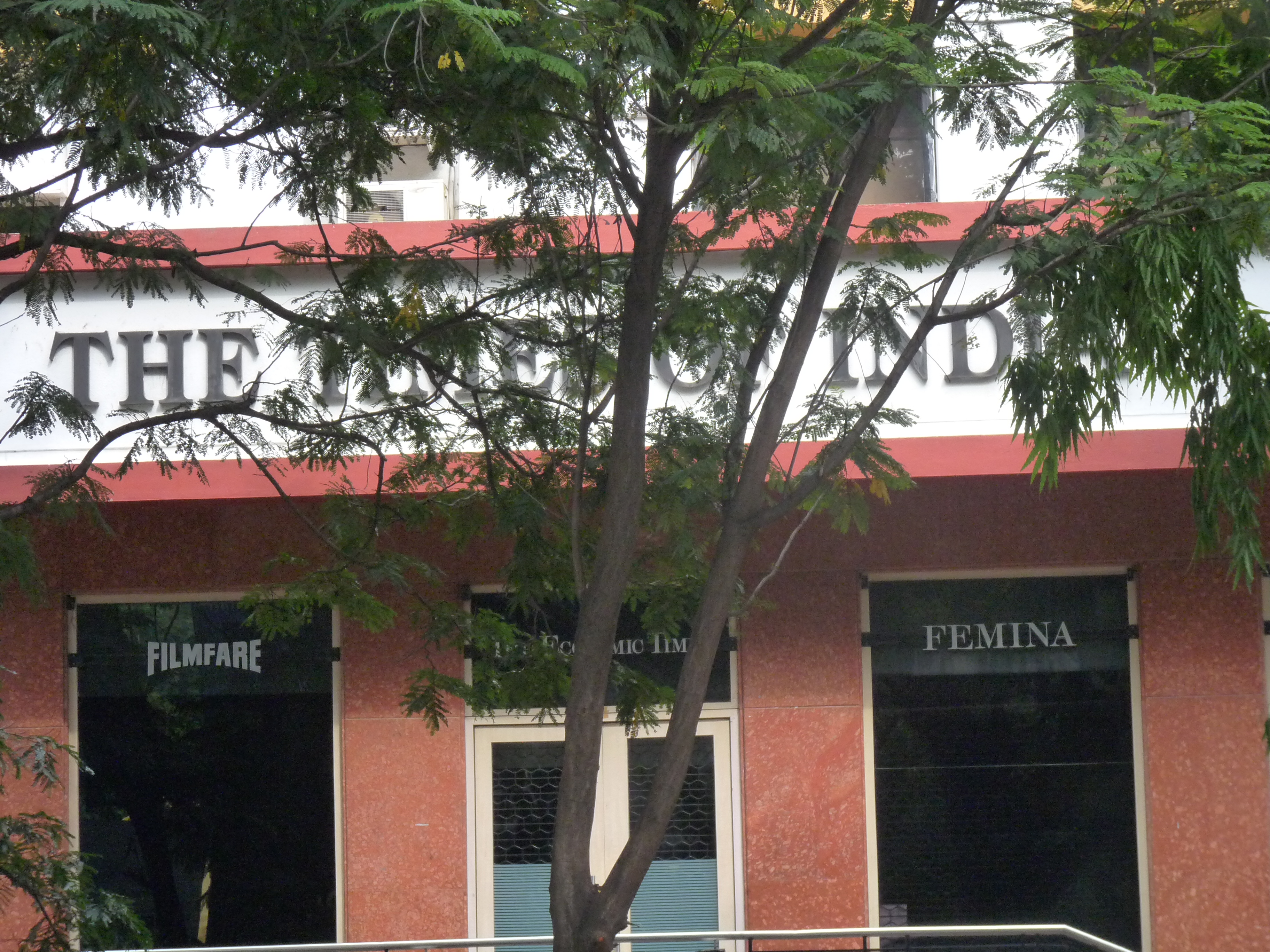 Times of India office